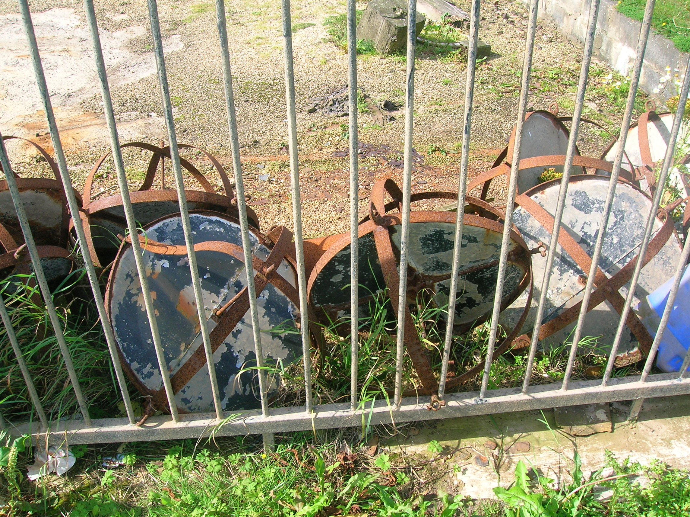 A view of the remains of the balls from the Boyd's Automatic tide signalling apparatus. Irvine, North Ayrshire, Scotland. Rosser 19:20, 26 August 2007 (UTC)